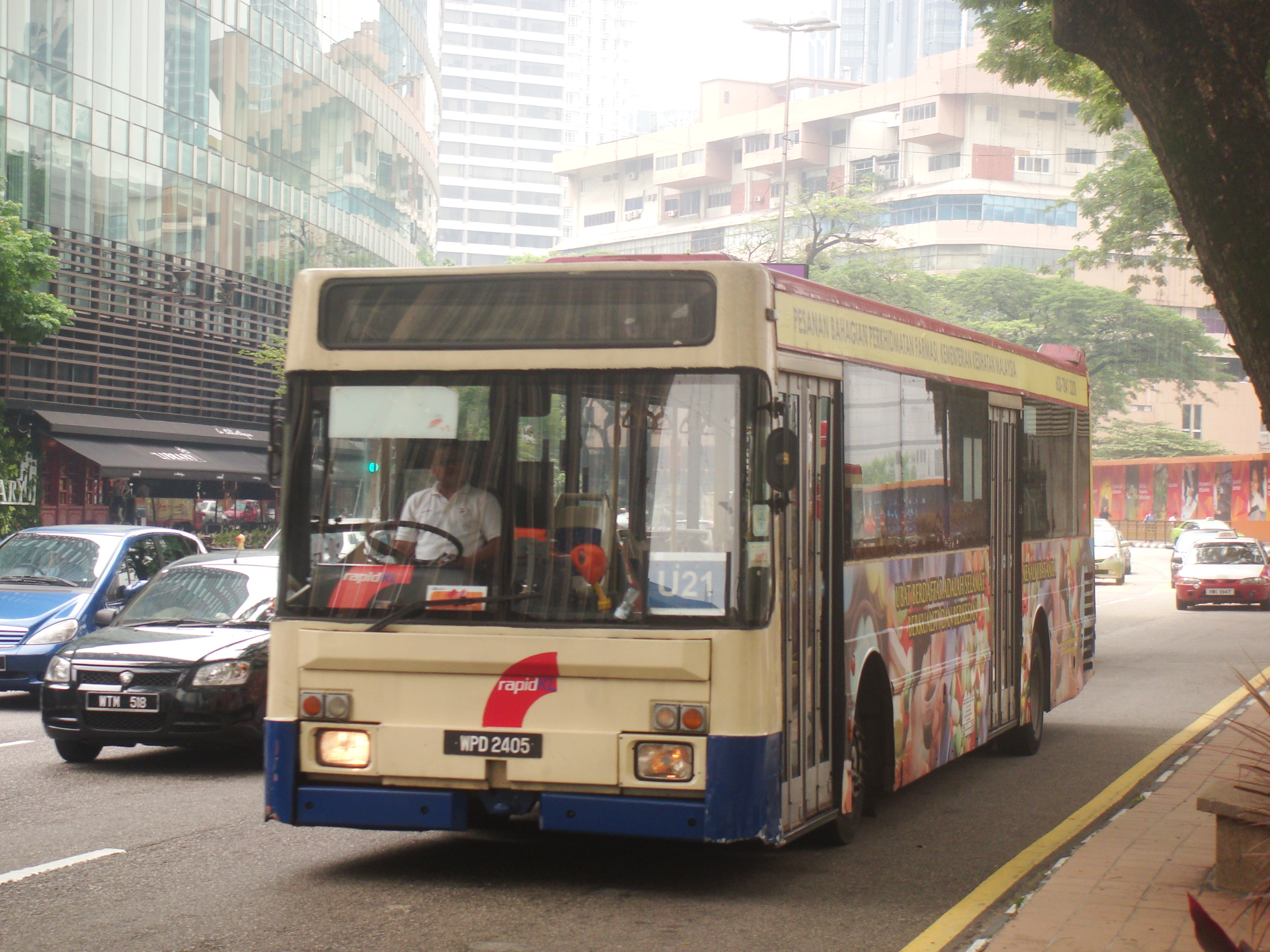 An unrefurbished Iveco TurboCity bus operated by RapidKL in Kuala Lumpur, Malaysia.